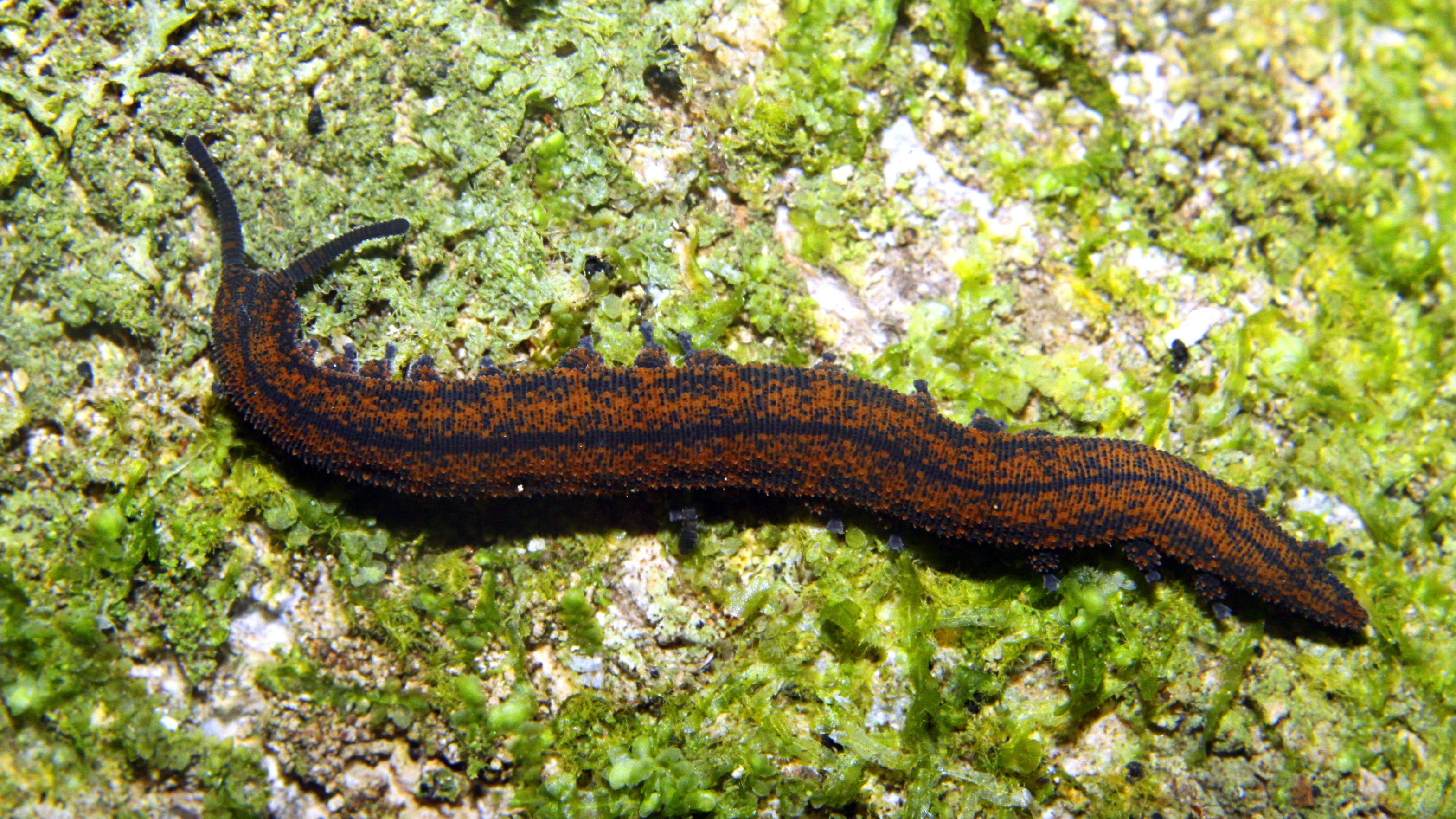 These all tend to be called Peripatus in New Zealand, I think this one is in fact Peripatoides novaezealandiae. Found on a damp tree at night in regenerating forest. Karori, Wellington, New Zealand.